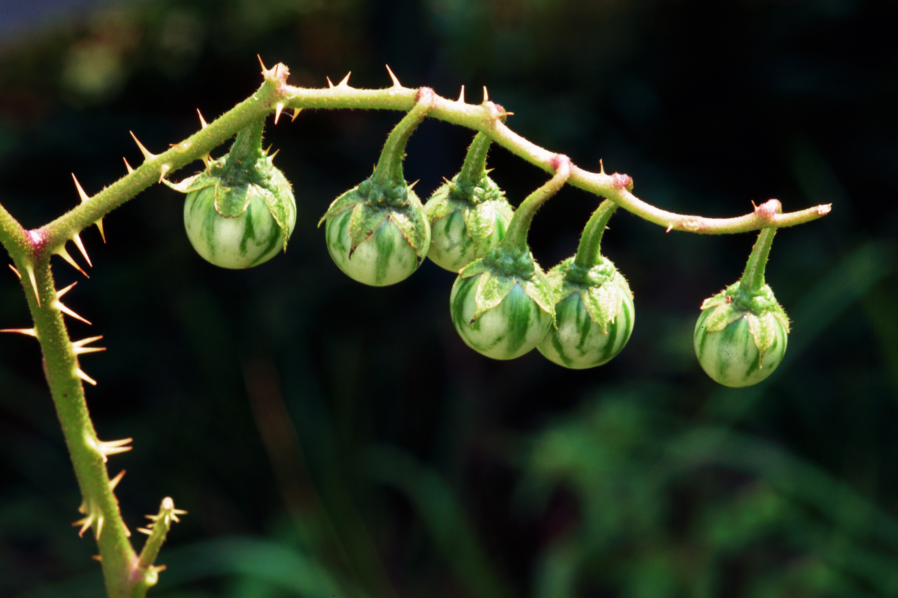 Fruits of Solanum carolinense